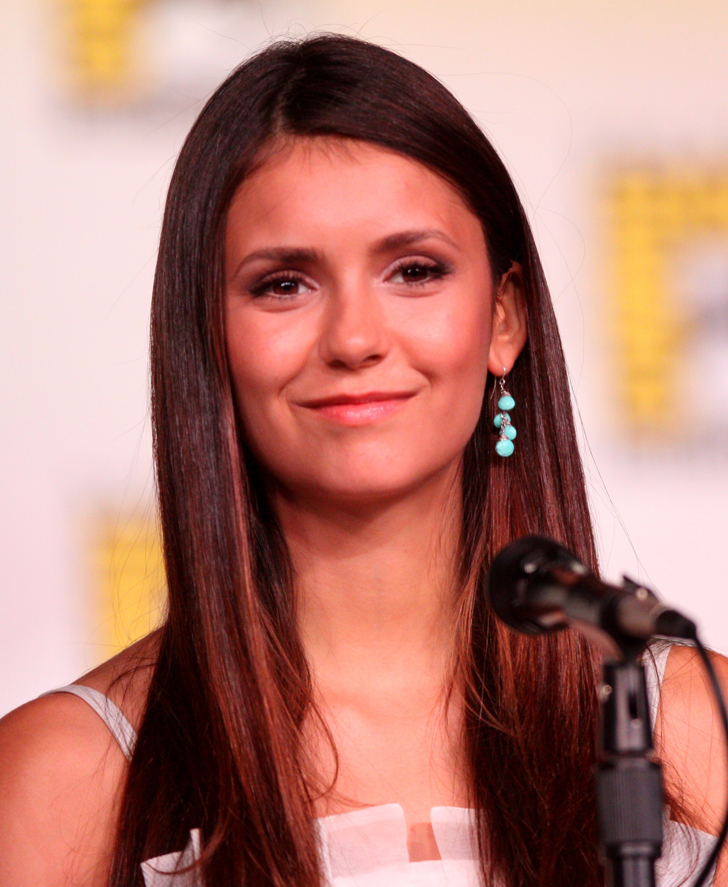 Nina Dobrev at the 2012 ComicCon.